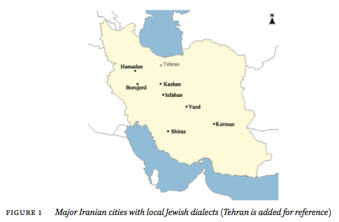 Map to show where Hamadan is compared to other cities.